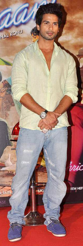 Shahid Kapoor at the promo launch of film Teri Meri Kahaani.